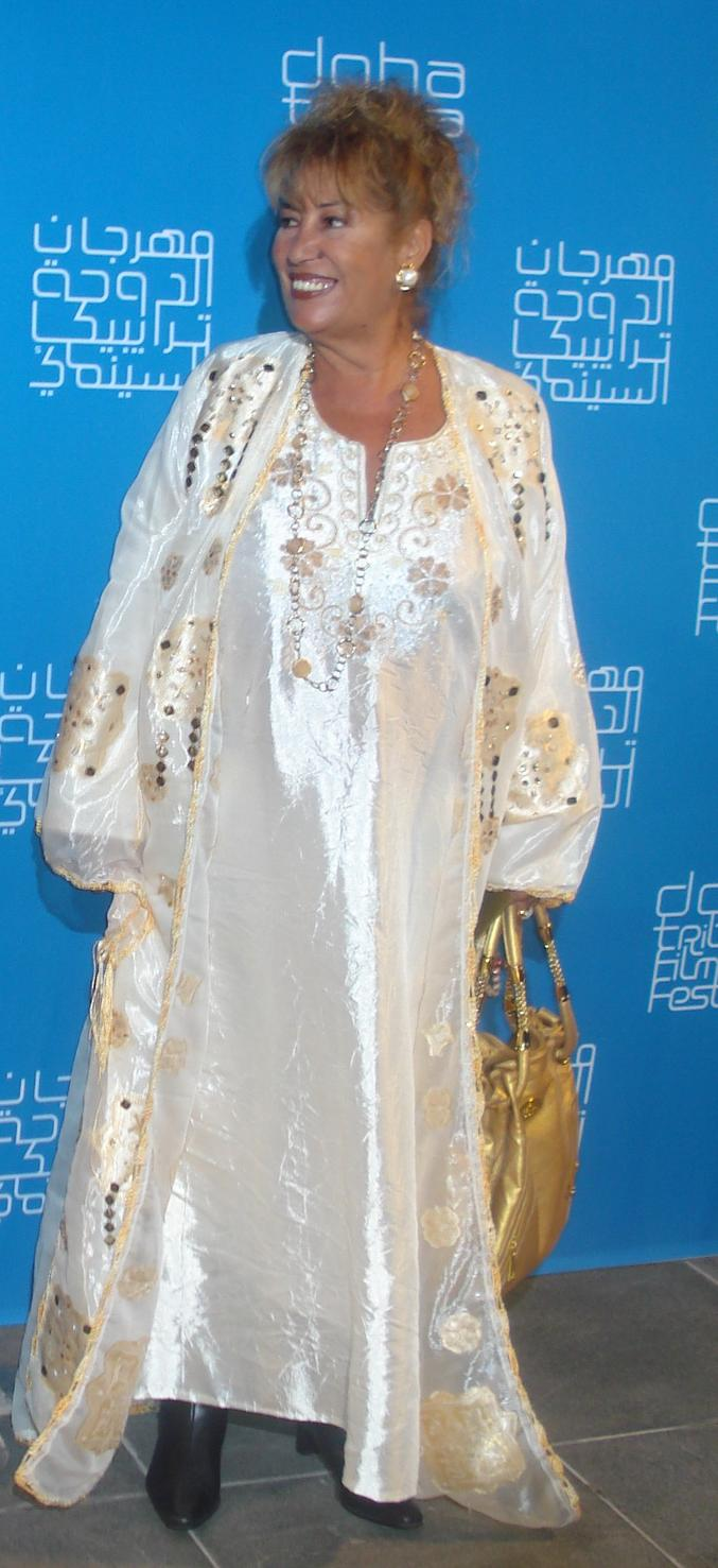 Muna Wassef in Qatar 2009.